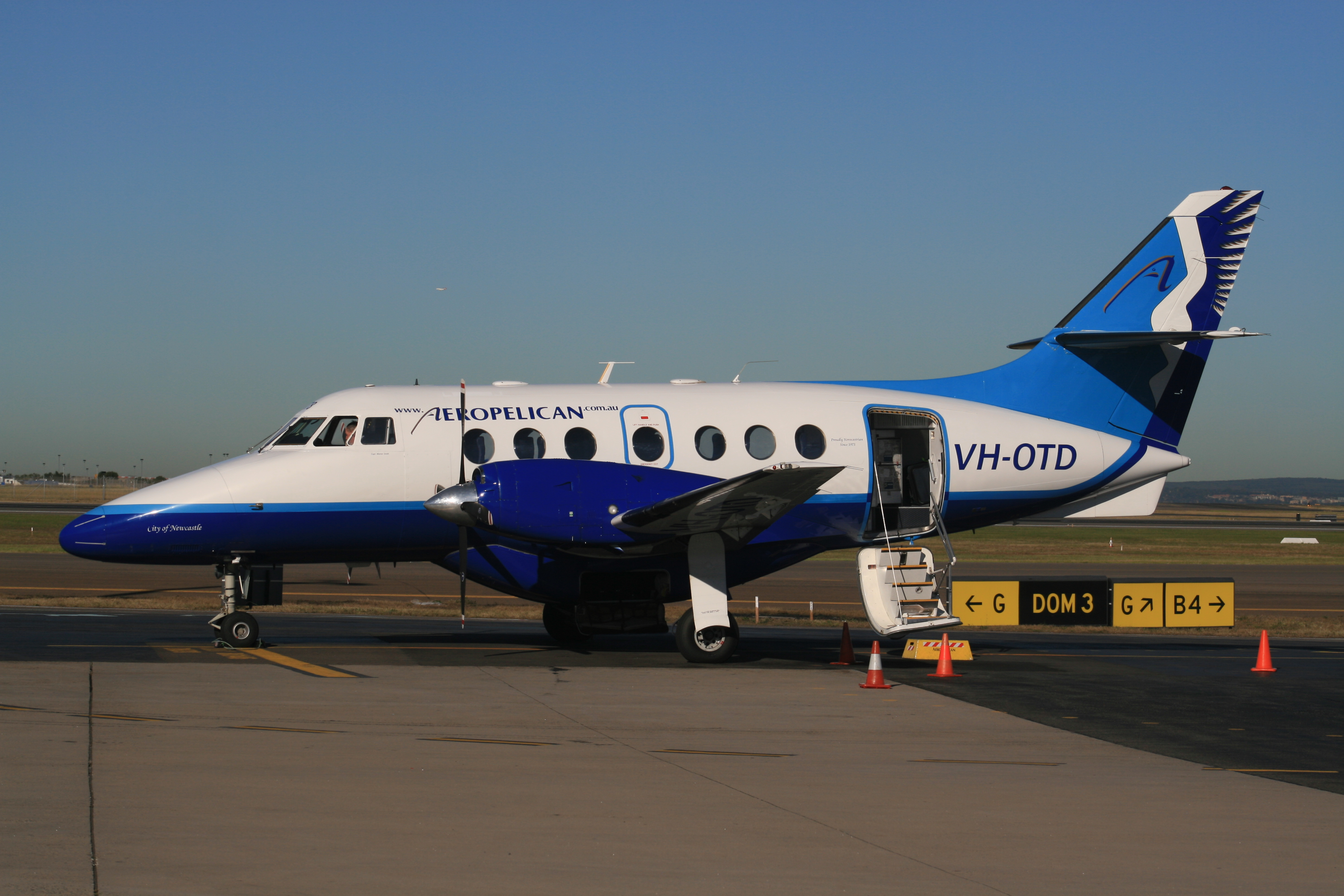 Aeropelican Air Services BAe Jetstream 32 VH-OTD, wearing revised colour scheme partly derived from the aircraft's previous operator.